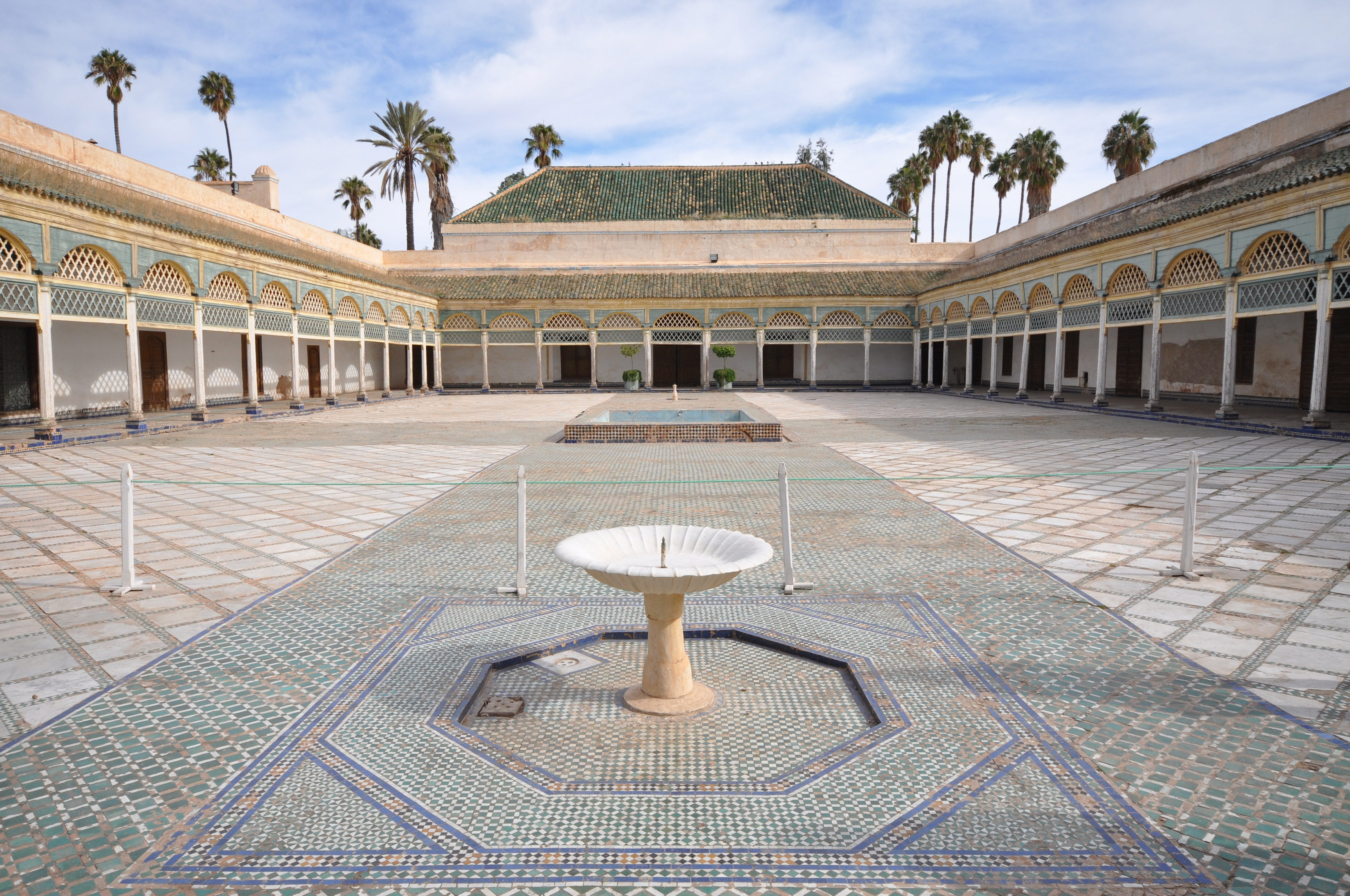 The Bahia Palace is a palace and a set of gardens located in Marrakech, Morocco. It was built in the late 19th century, intended to be the greatest palace of its time. The name means "brilliance". As in other buildings of the period in other countries, it was intended to capture the essence of the Islamic and Moroccan style. There is a 2 acre (8,000 m²) garden with rooms opening onto courtyards.